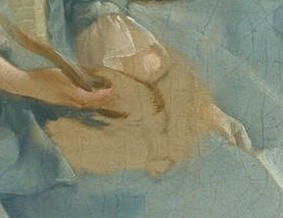 Robert Andrews of the Auberies and Frances Carter of Ballingdon House after the marriage.